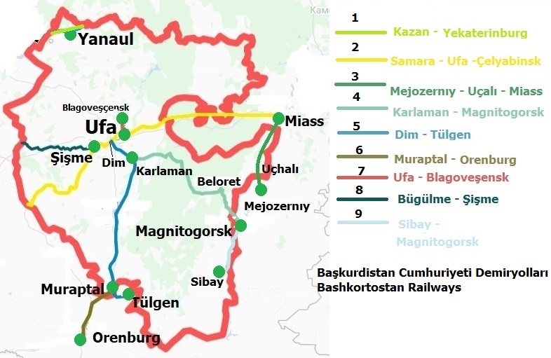 Railways in the Republic of Bashkortostan